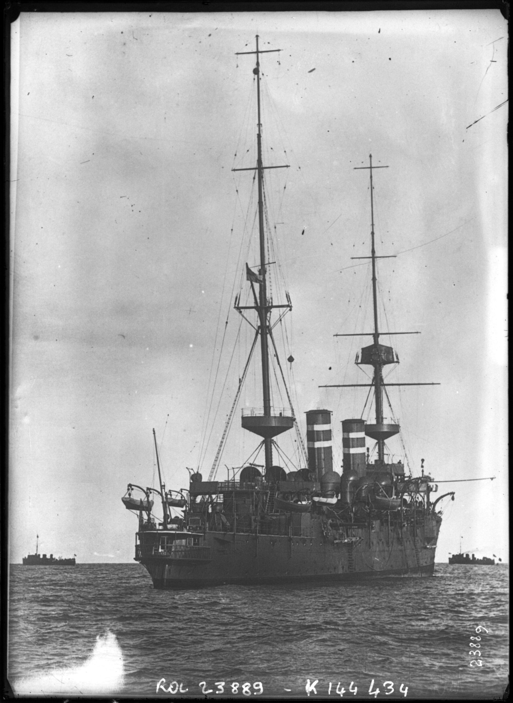 HMS Minerva, Eclipse-class cruiser during search for the sunken submarine B-2, 1912